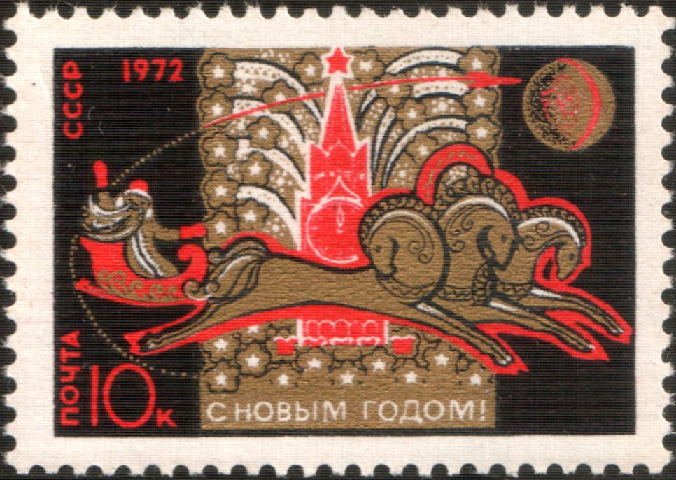 A USSR stamp